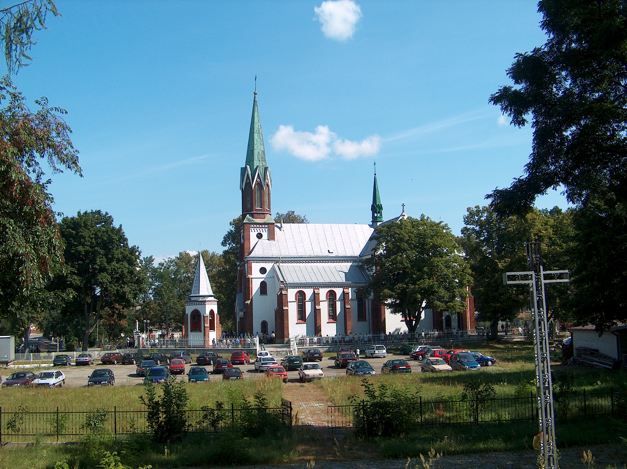 Church in Wola Żarczycka